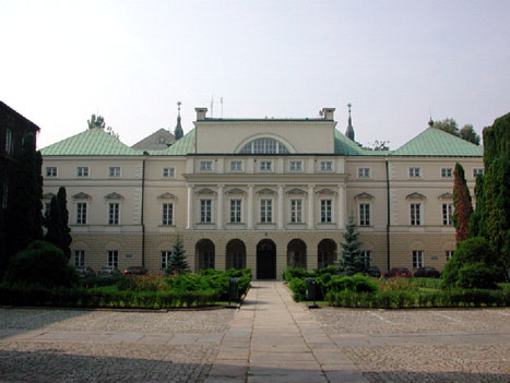 Ministry of Health